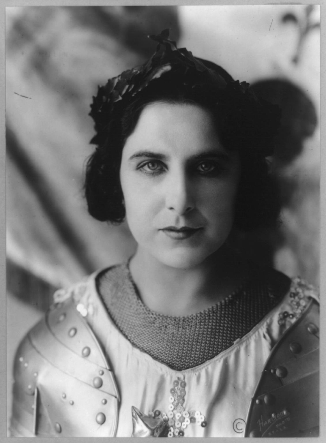 Opera singer and film actress Geraldine Farrar, head-and-shoulders portrait, facing front. Still from Joan the Woman (1916).